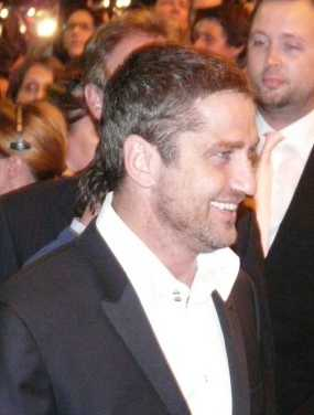 Gerard Butler Arrives at RocknRolla Premiere for Tiff '08 Checkout More Great photos at: Cropped version.